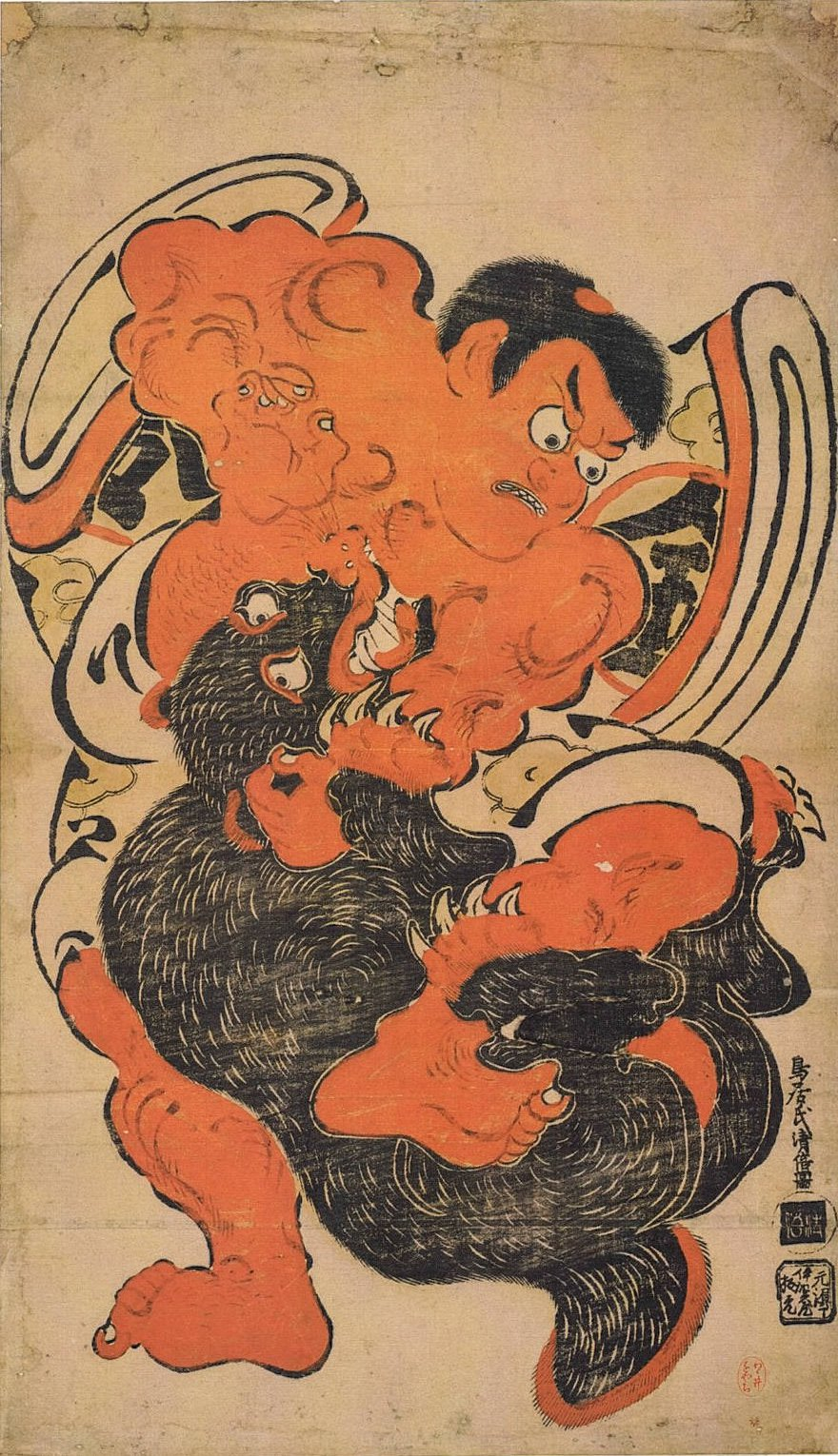 Kintoki Wrestling with a Black Bear, woodblock print by Torii Kiyomasu I, c. 1700, James Michener Collection, Honolulu Museum of Art accession 16576